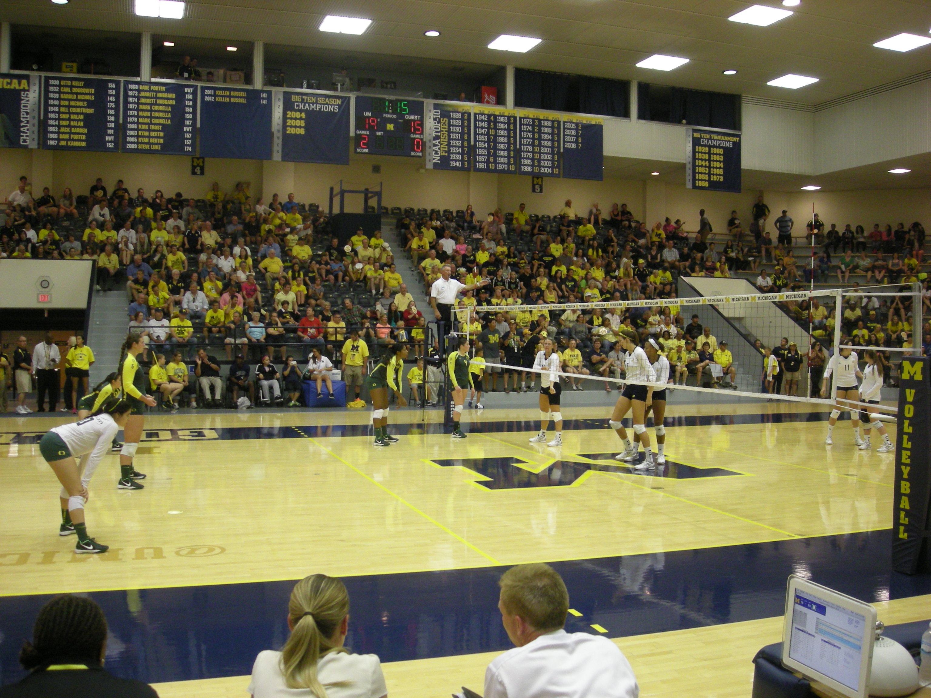 In-match action during the Oregon Ducks vs. Michigan Wolverines women's volleyball match at Cliff Keen Arena in Ann Arbor, Michigan (United States). Michigan won 3–0 (25–22, 25–22, 25–21).